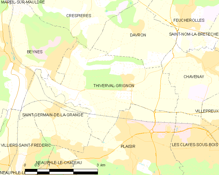 Map of French municipality Thiverval-Grignon